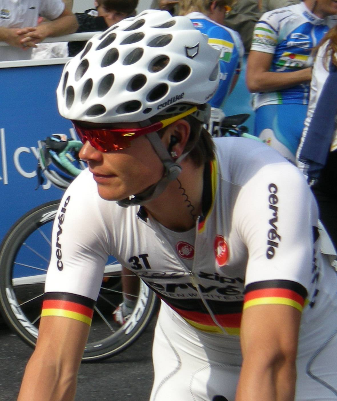 Martin Reimer at 2009 Tour of Britain